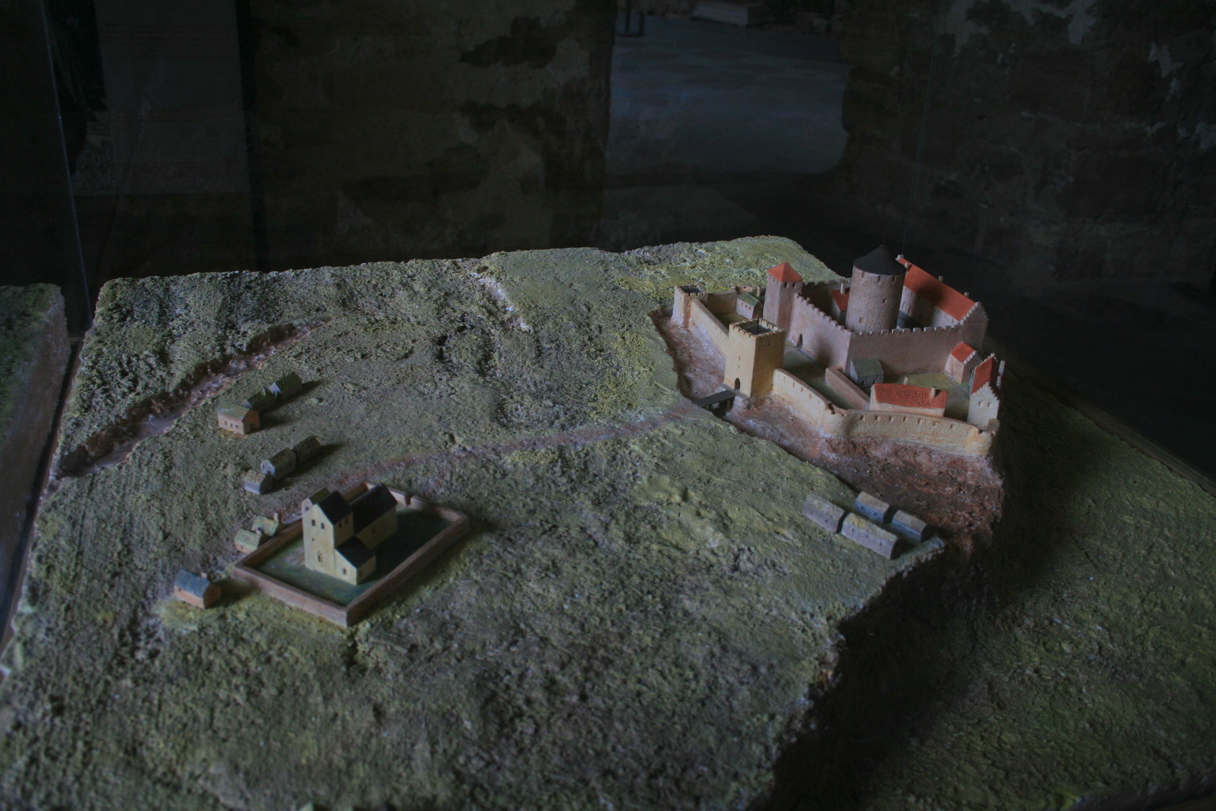 Model of the XIVe century Borgholm castle, in Borgholm castle museum.